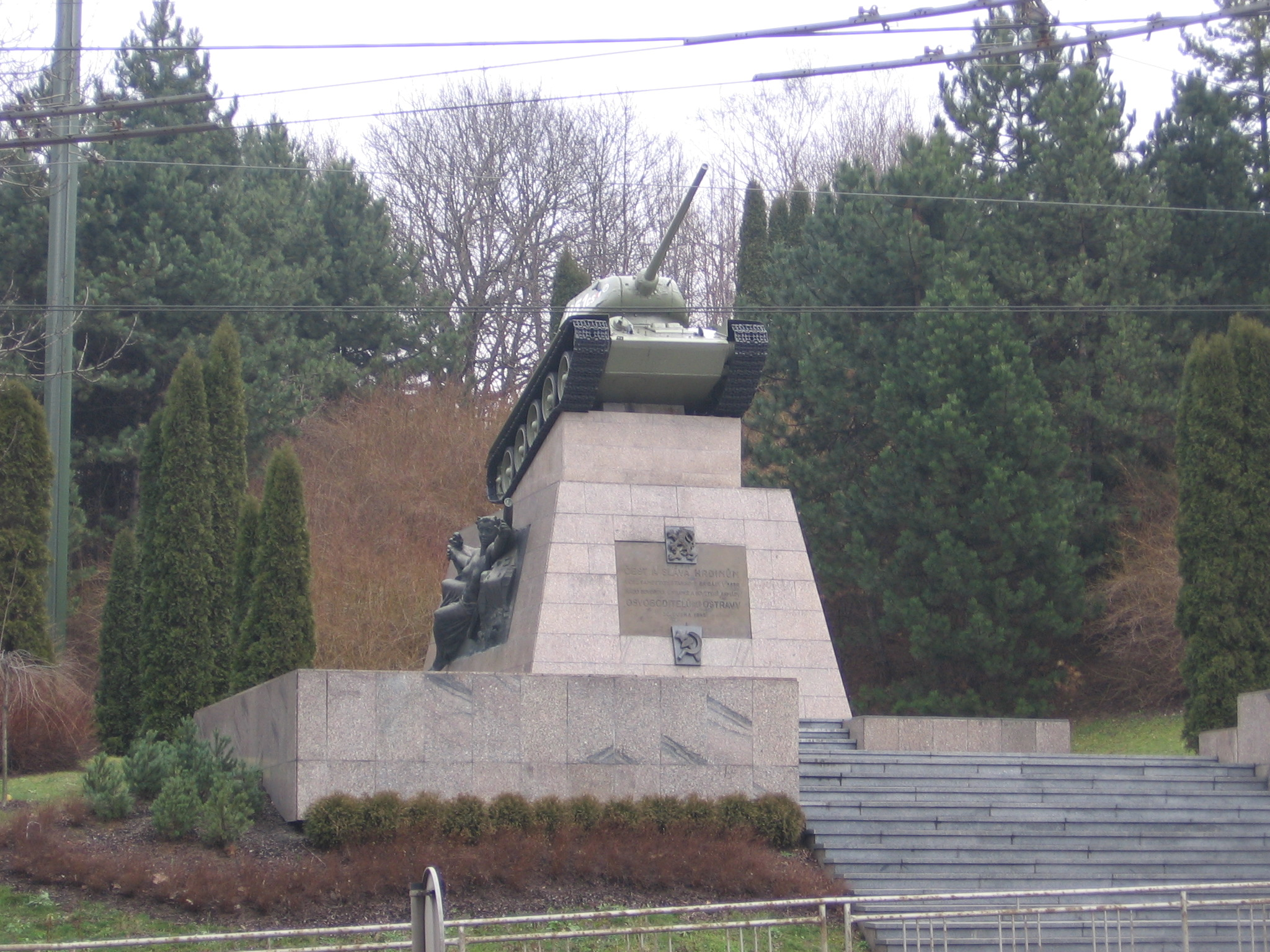 Tank near Miloš Sýkora Bridge in Ostrava (Czech Republic)